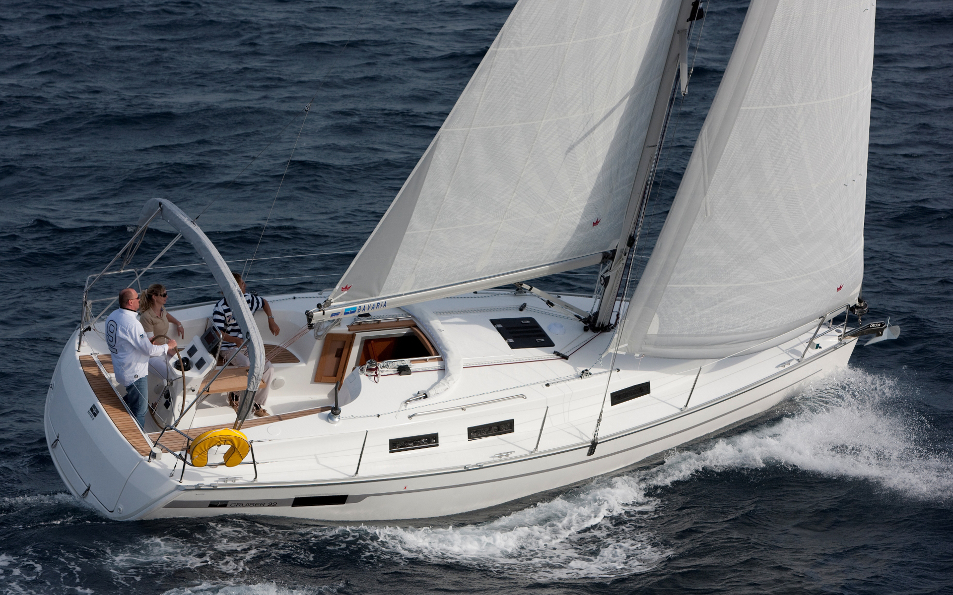 A sailing yacht type Bavaria Cruiser 32 by Bavaria Yachtbau (Germany)